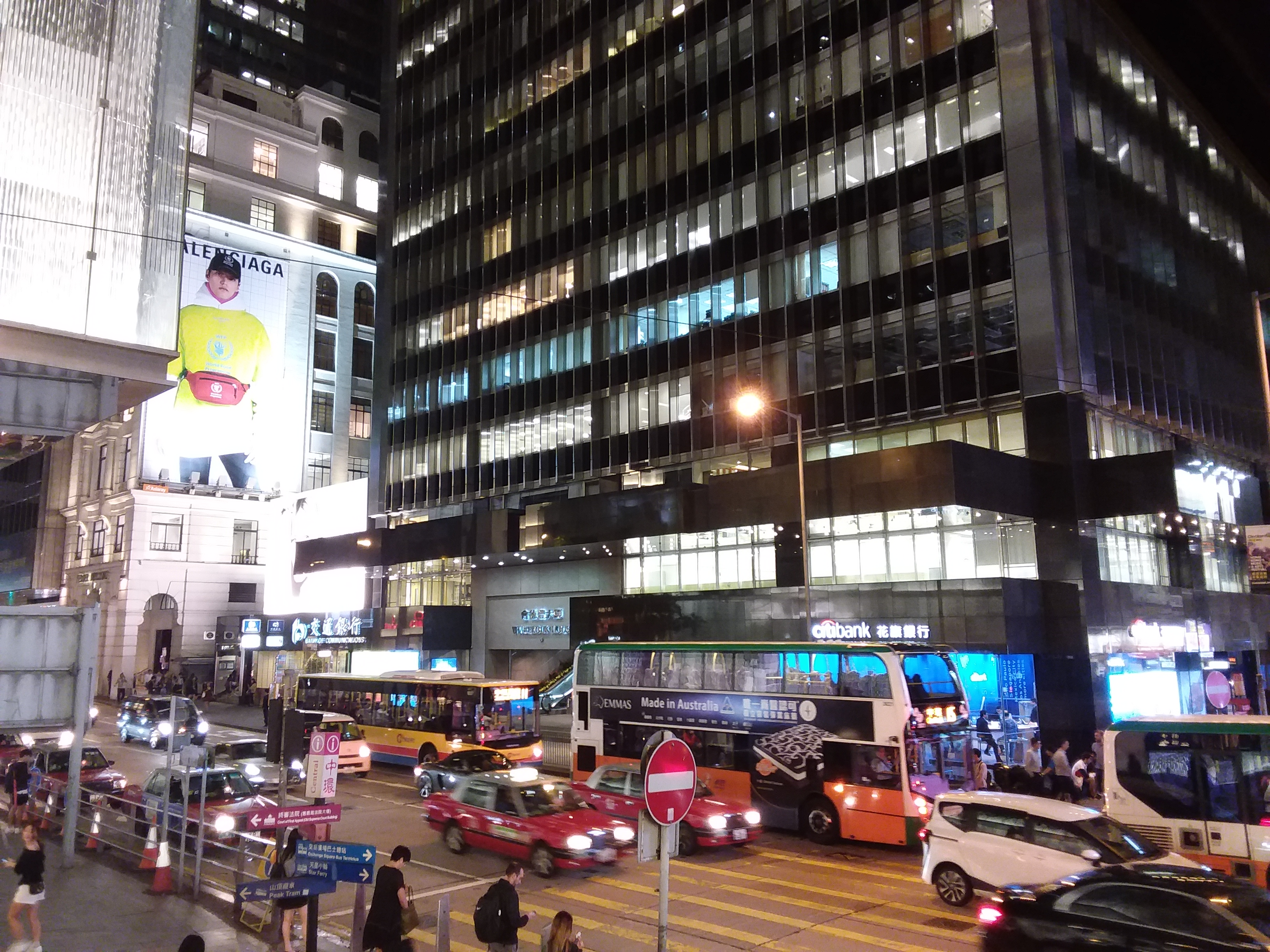 HK 中環 Central 畢打街 Pedder Street night Des Voeux Road 會德匯 October 2018